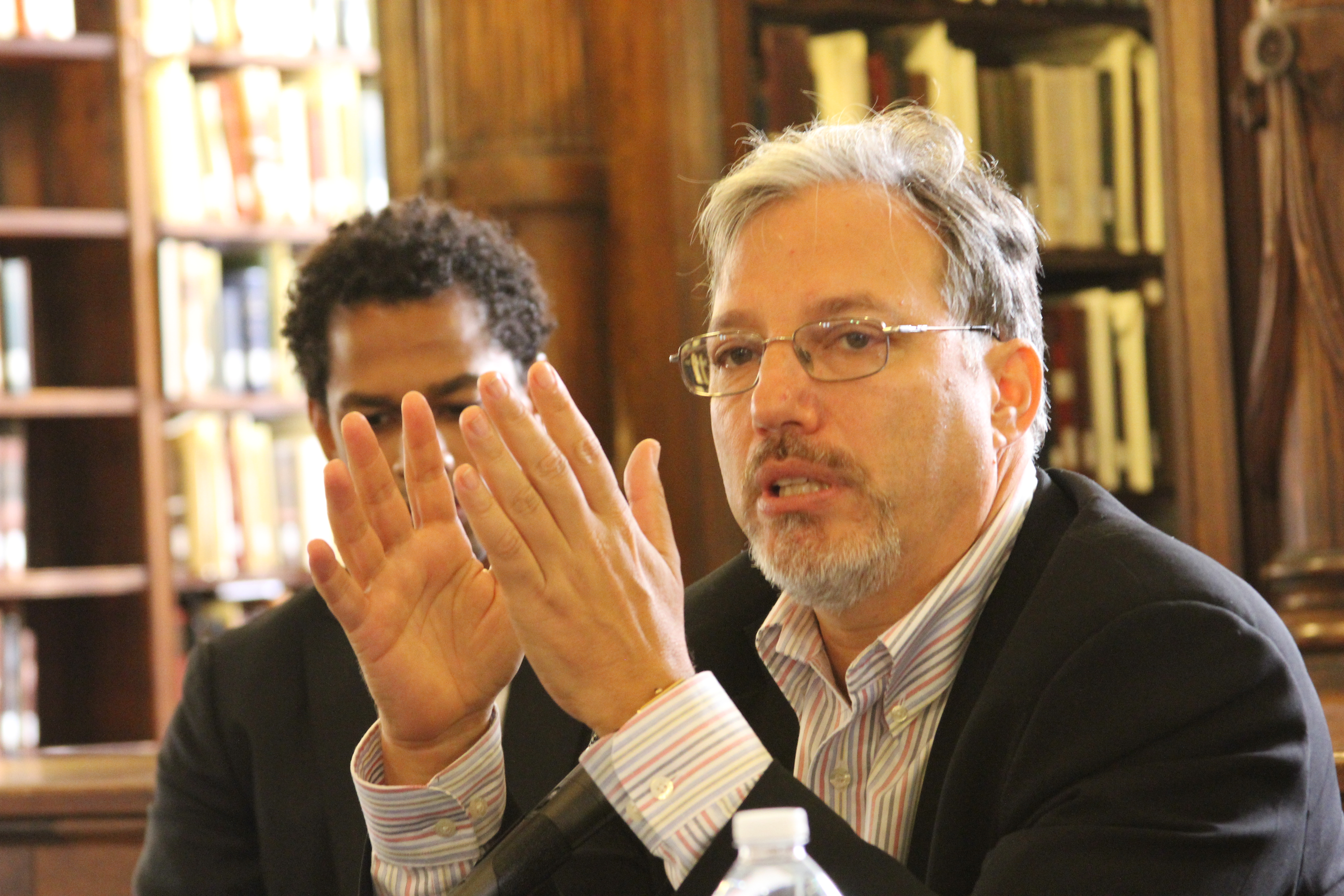 Eric Alterman at 2012 Brooklyn Book Festival